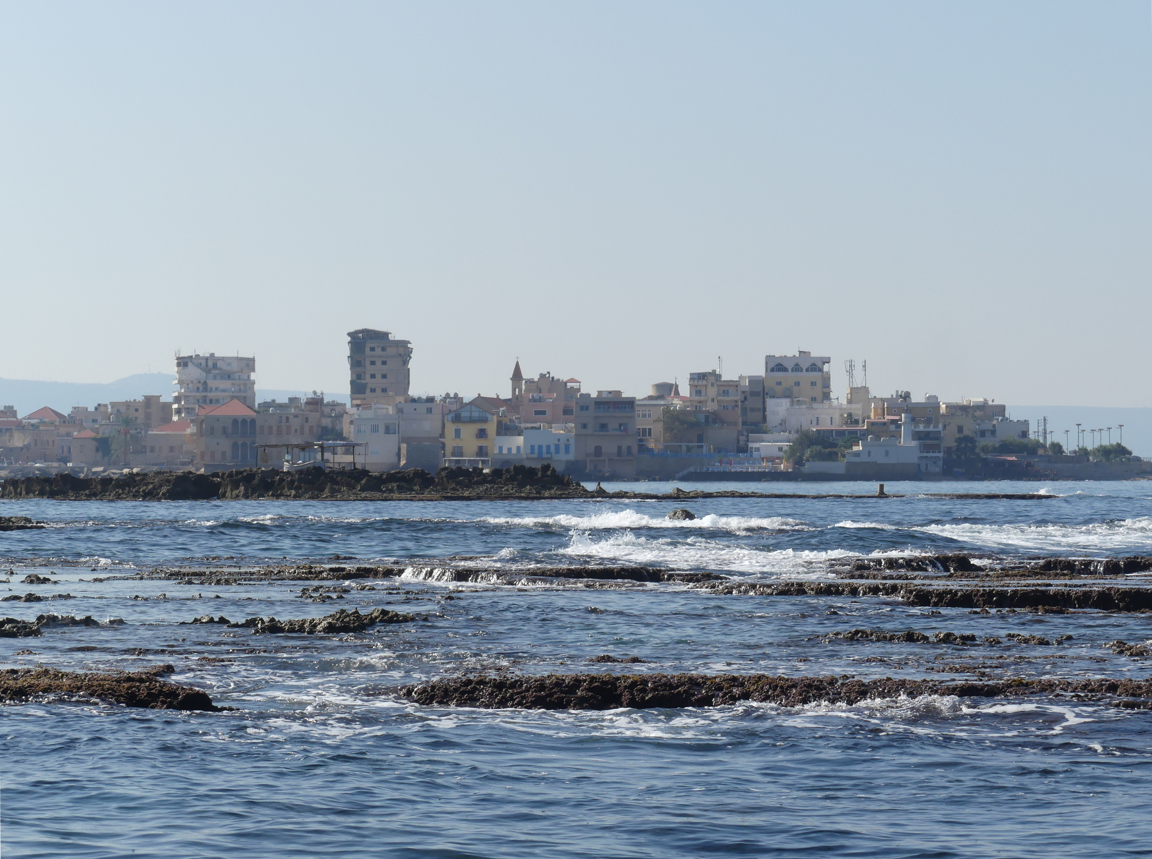 A group of rocky islands off the Western shore of the Tyre/Sour peninsula, Southern Lebanon, with the skyline of the Christian quarter in the background.